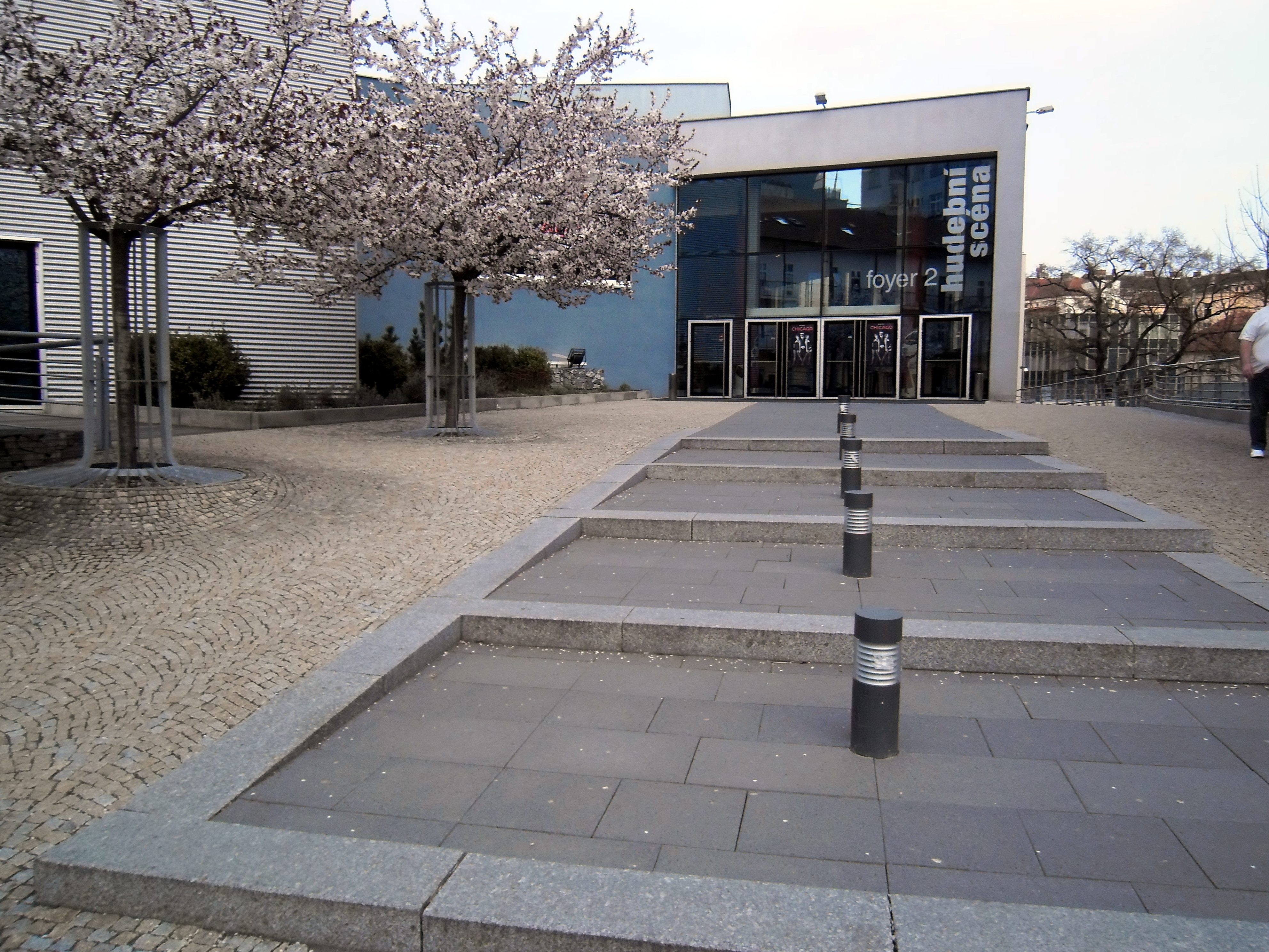 Theater courtyard